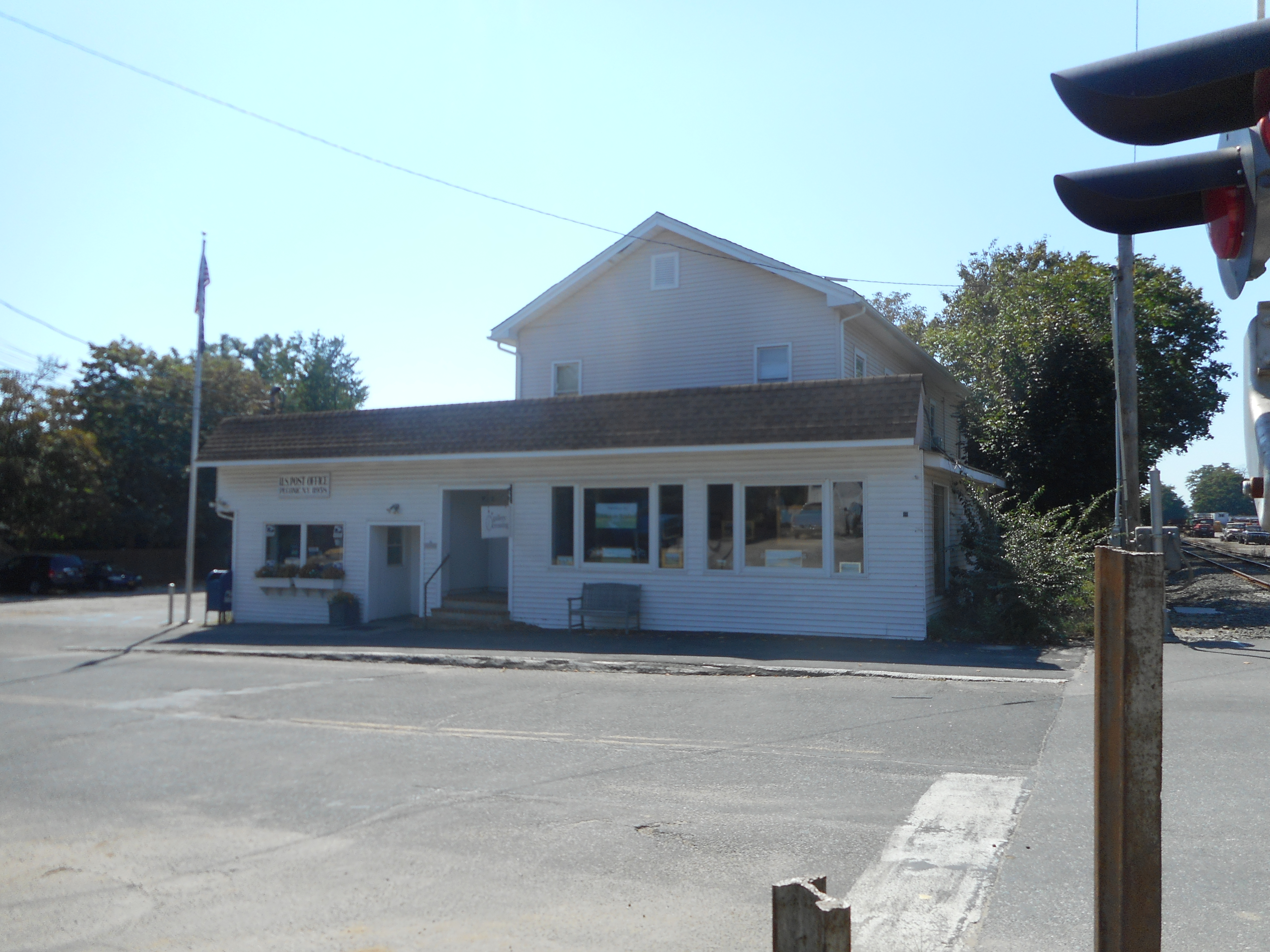 The United States Post Office in Peconic, New York, which at one time also served as the Peconic Long Island Rail Road station.